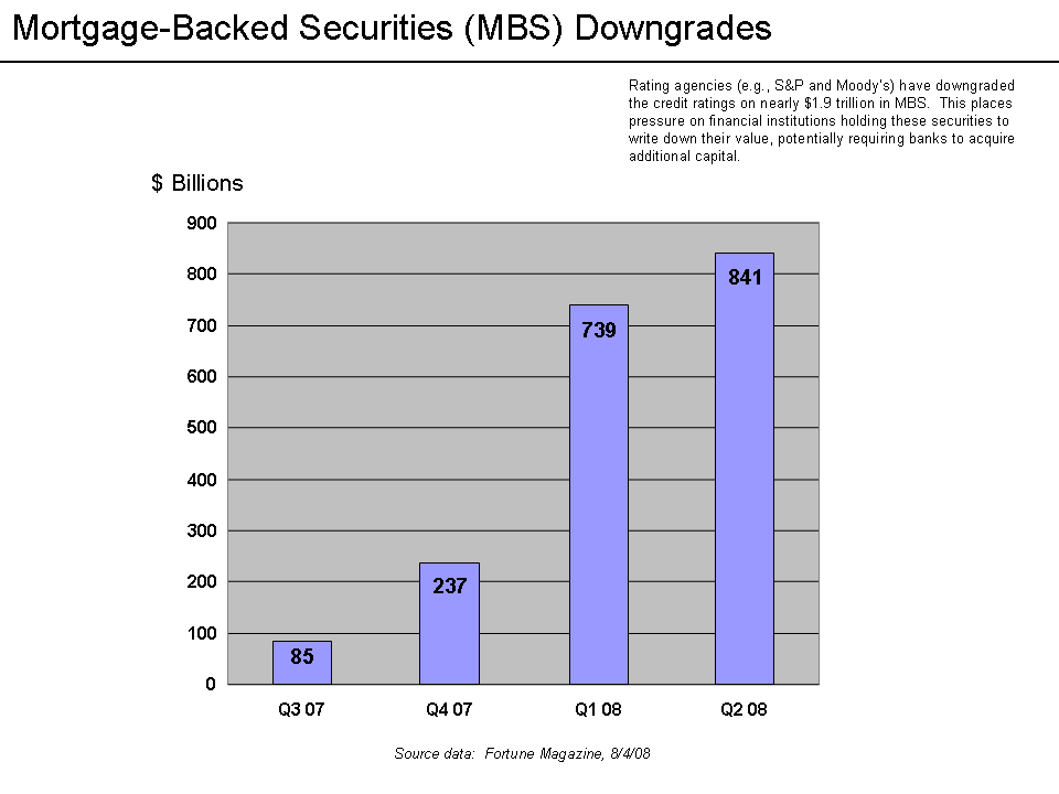 MBS Downgrades Q3 07 - Q2 08 Data Source The article containing the data for this chart is at